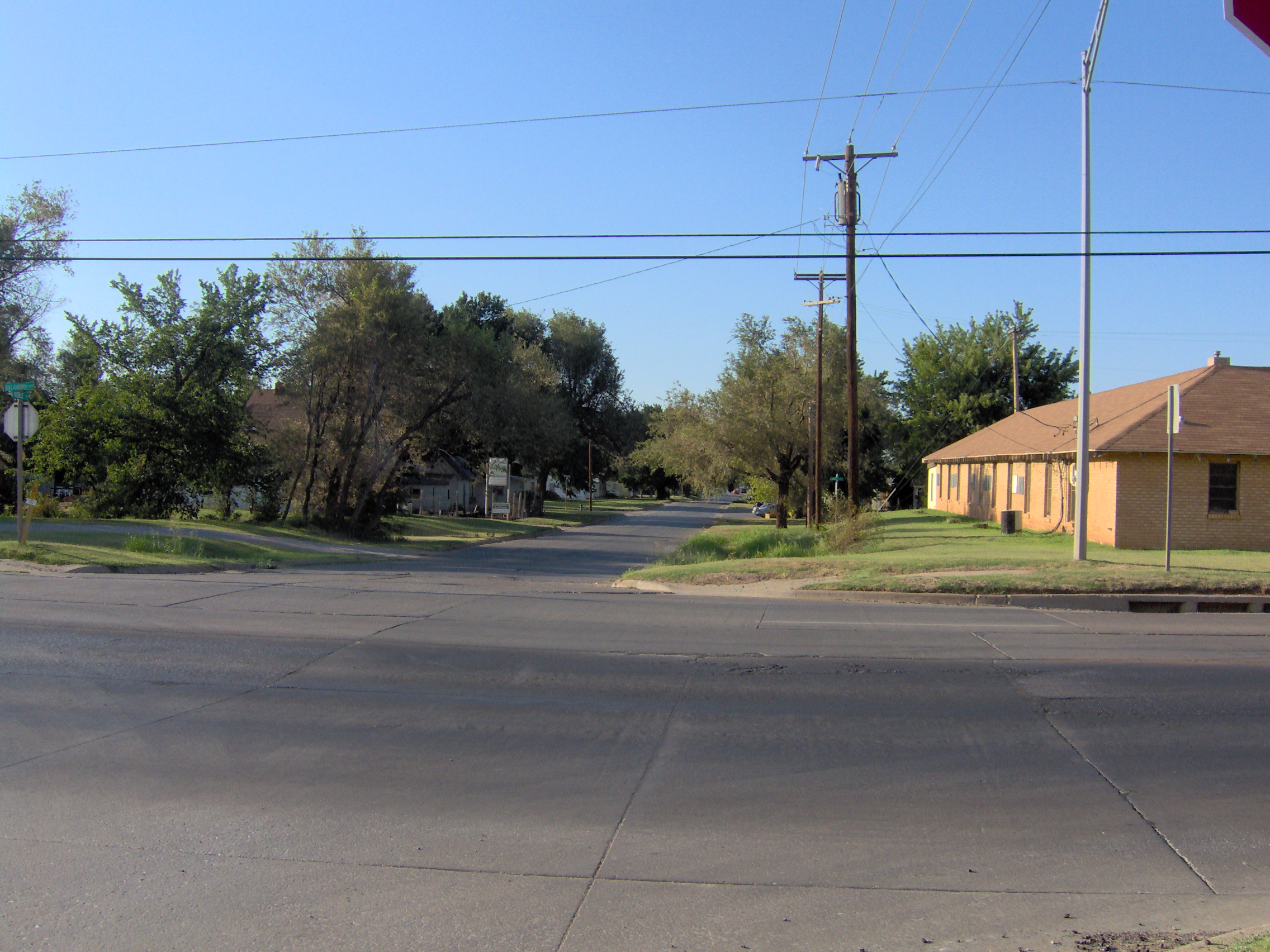 Intersection in Alva, in far northwestern Oklahoma. Picture taken by Nyttend on 21 July 2006.